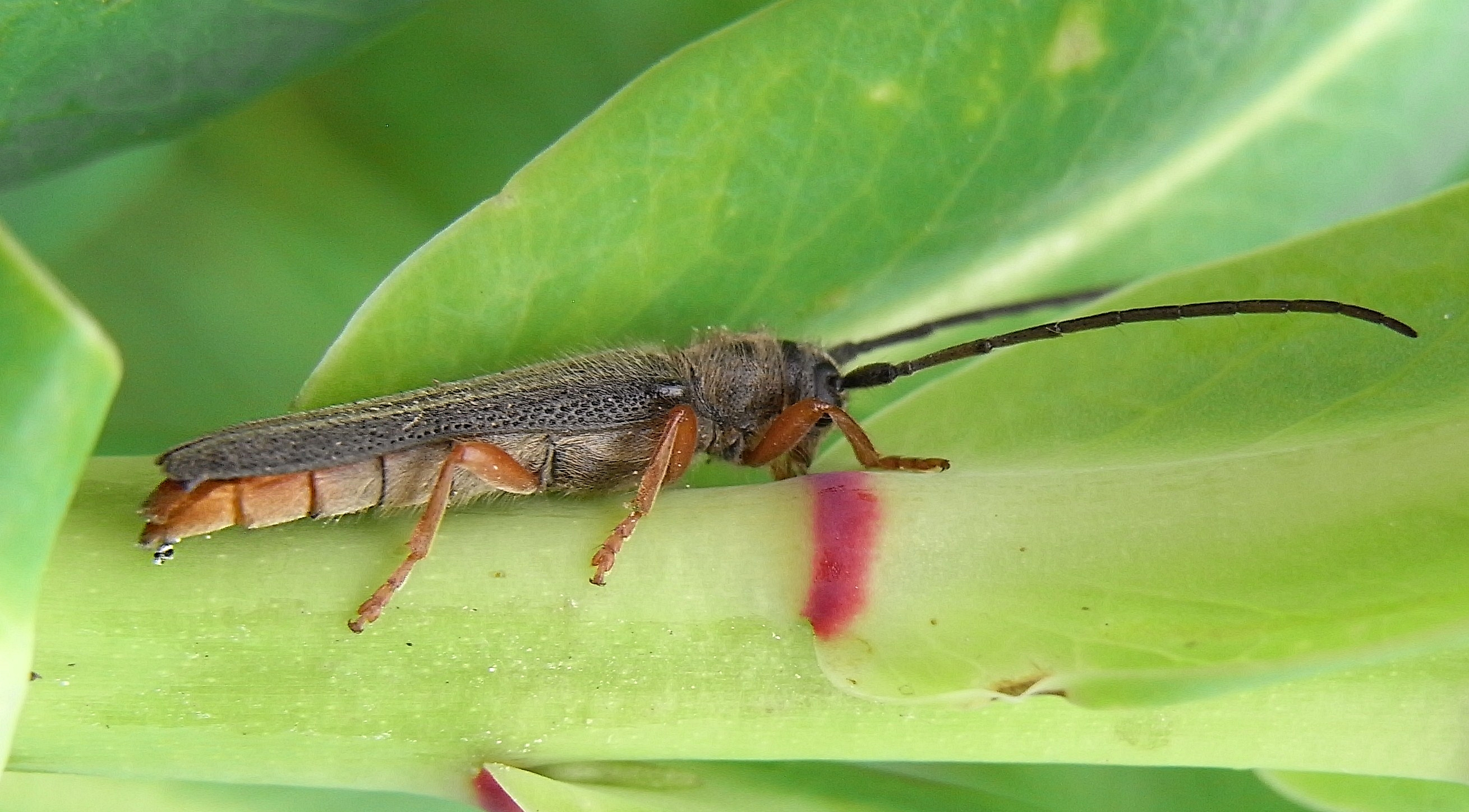 Oberea euphorbiae from Hungary at Davod (West of Mohacs) at 2010-05-11Ricoh R8